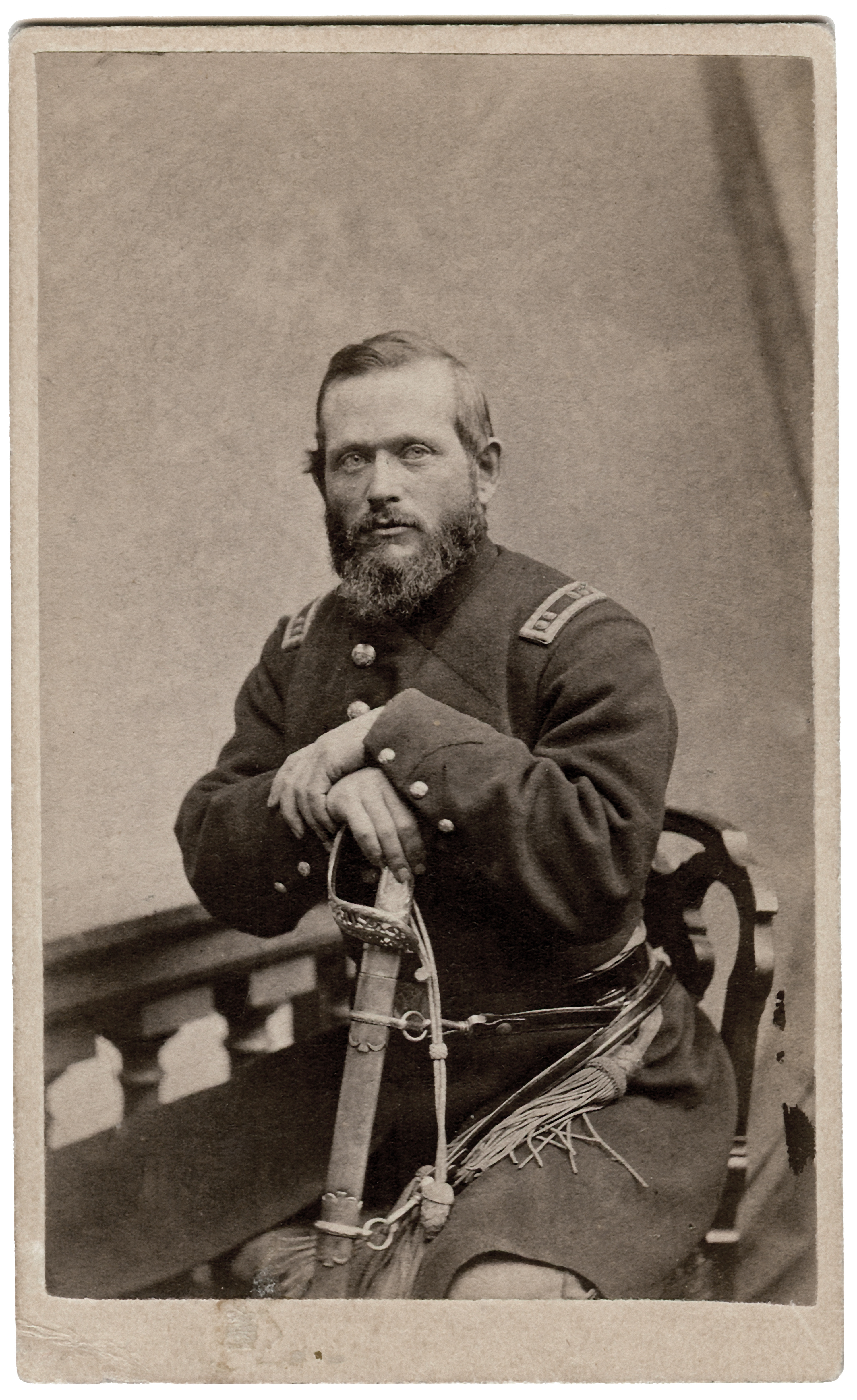 This is a CDV image of Reed, likely taken in San Francisco prior to the departure of the Cal Hundred for Massachusetts.